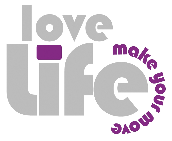 loveLife Logo, Make your move